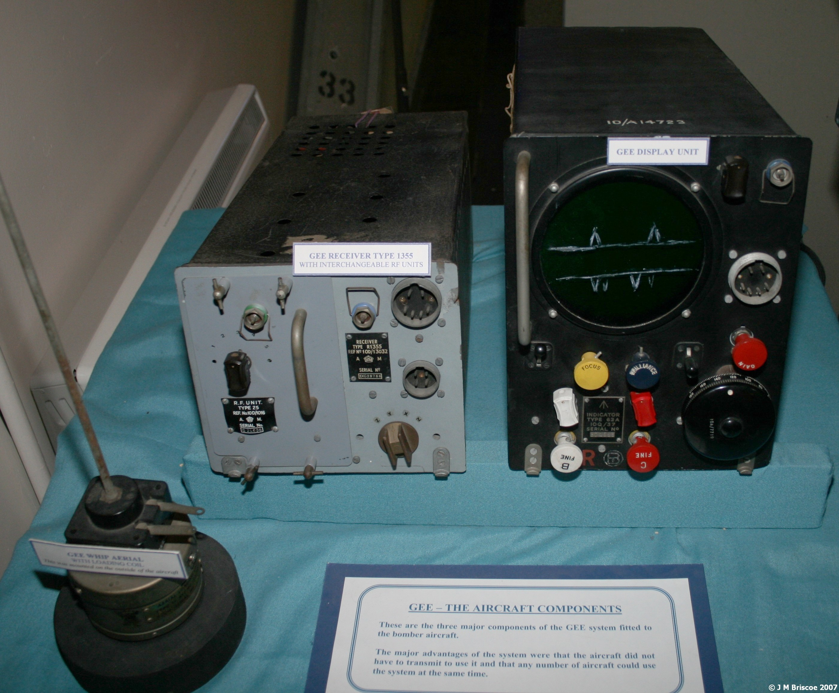 GEE airborne equipment At RAF Air Defence Museum